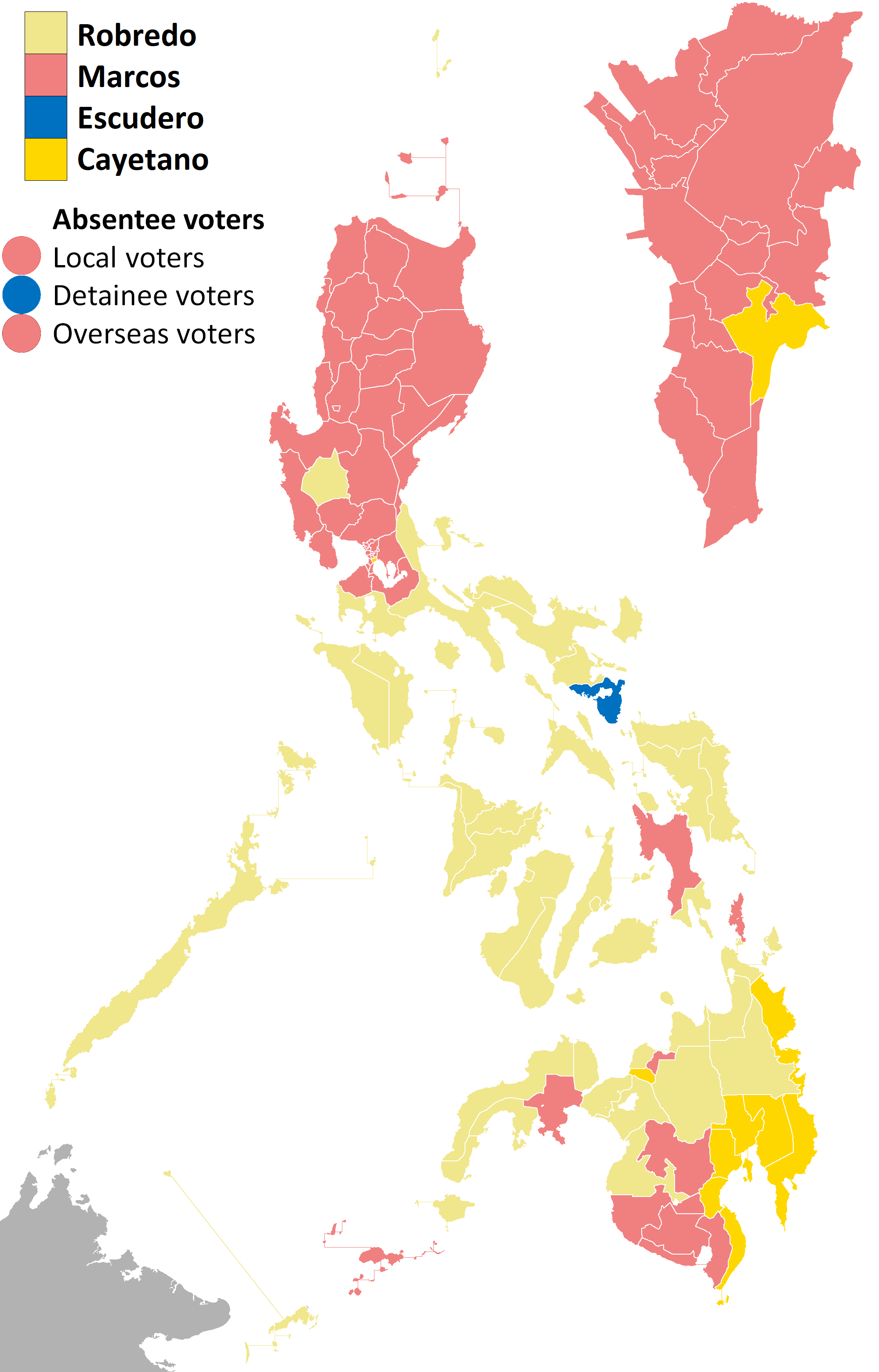 Provincial Breakdown of Vice Presidential Race 2016